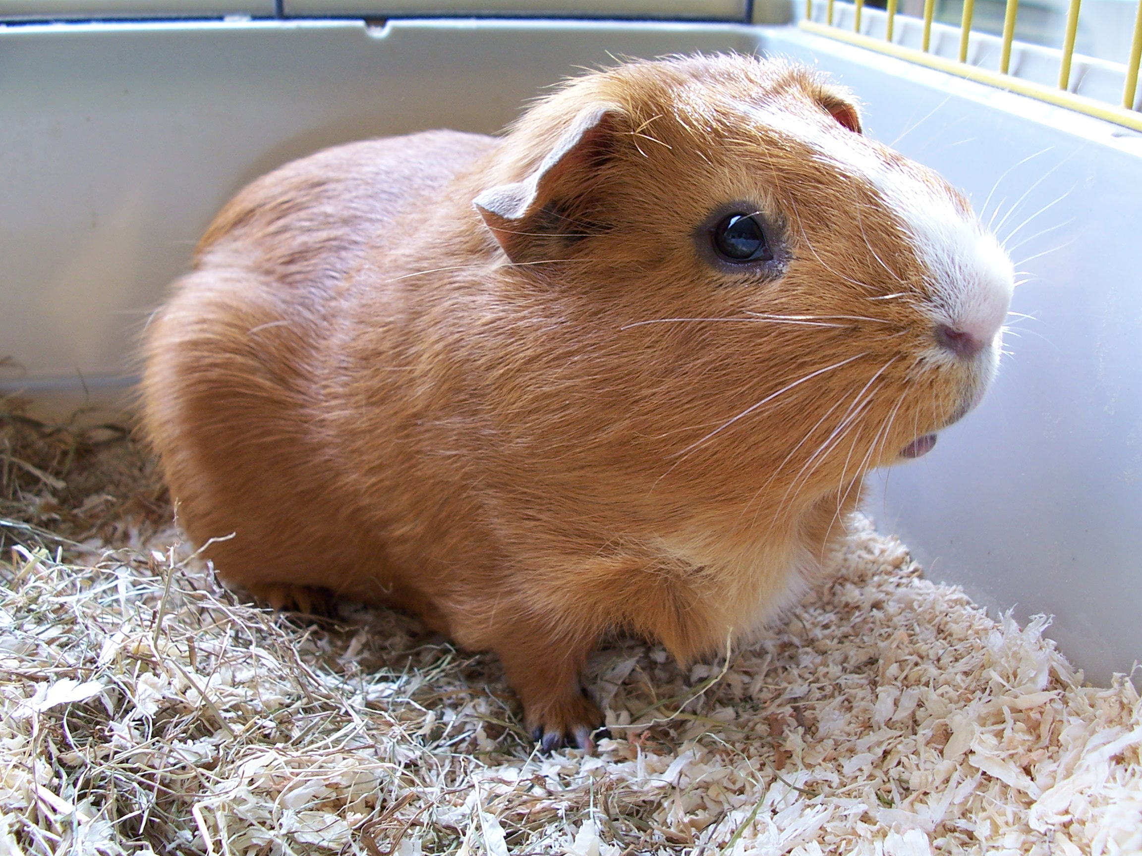 Joep the guinea pig (Cavia porcellus). Self made picture. cf. Image:Cavia.jpg